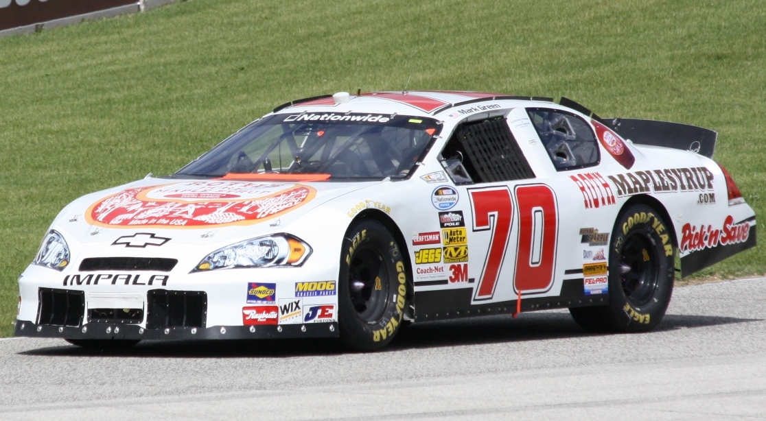 The NASCAR racecar for driver Mark Green (NASCAR) at the 2010 Bucyrus 200 at Road America.